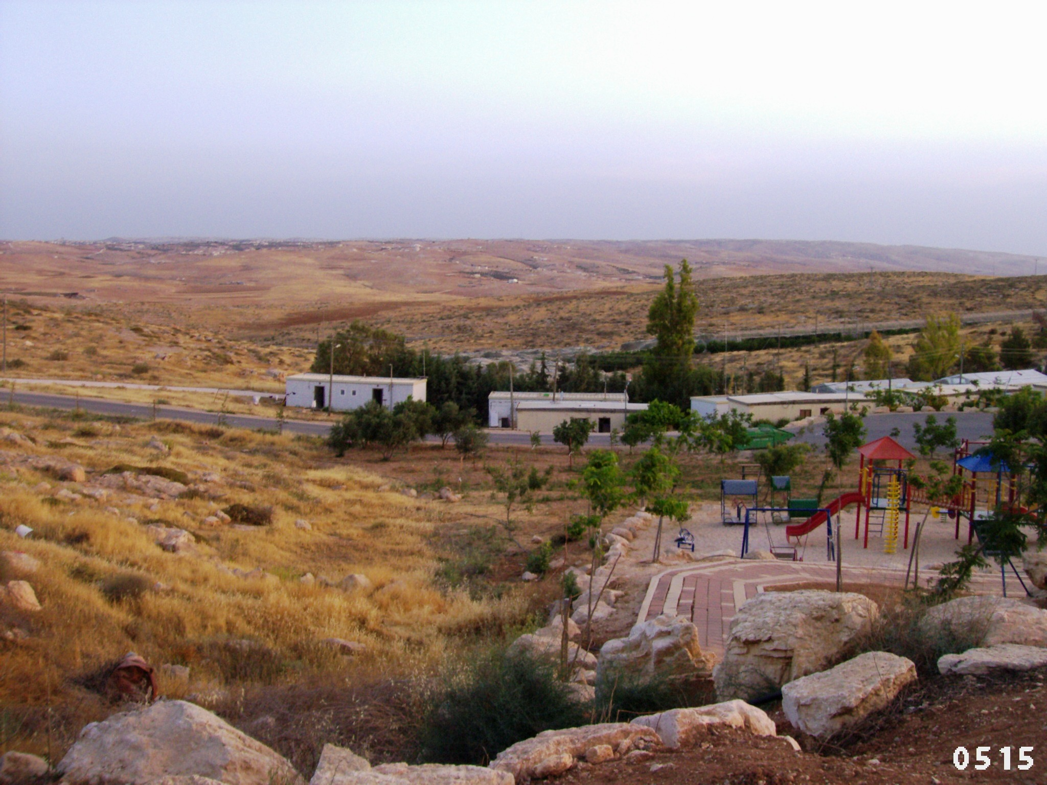 Panoram_to_Hare_Hevron